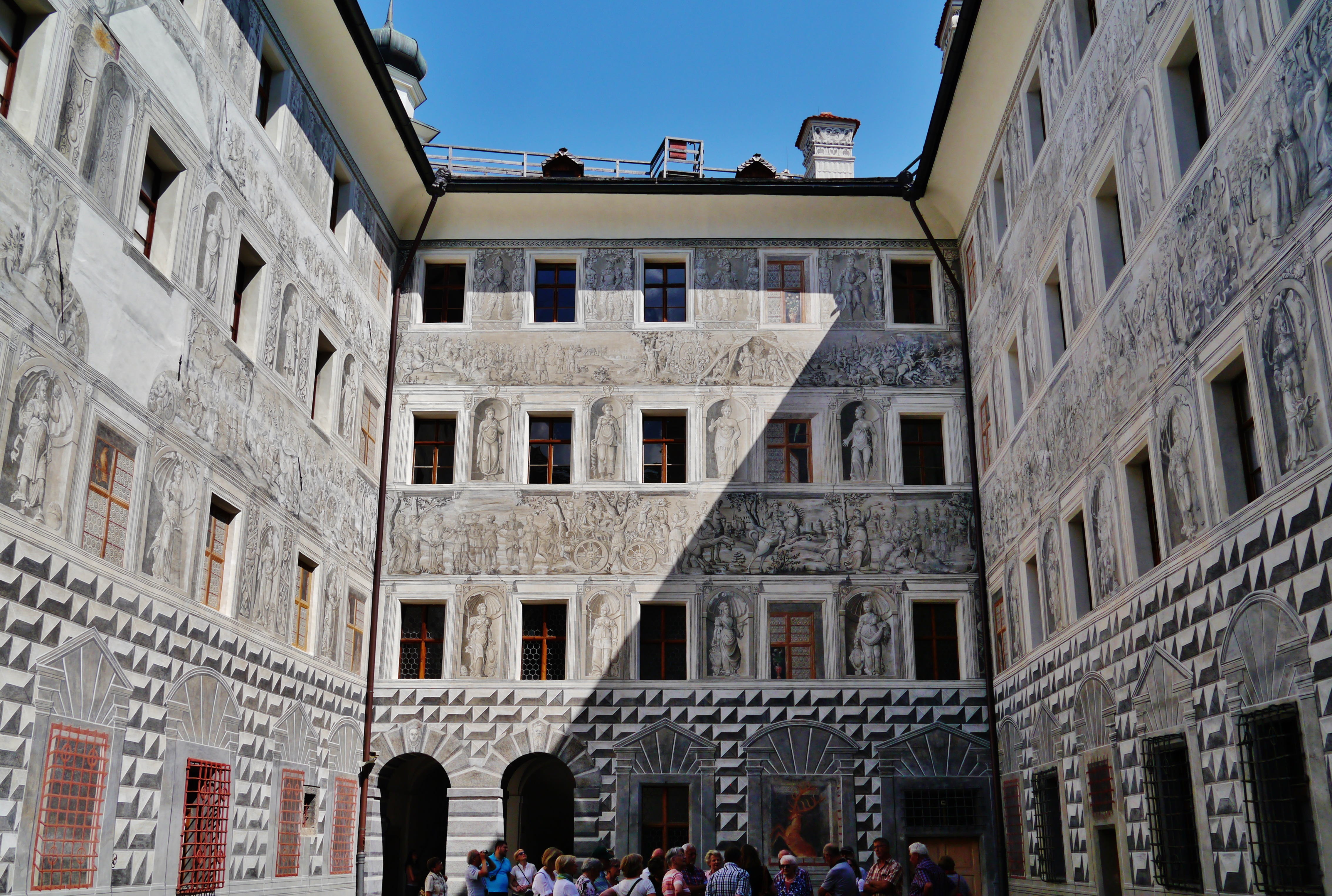 Inner Courtyard of the Upper Castle of Ambras Castle, Innsbruck, Tyrol, Austria